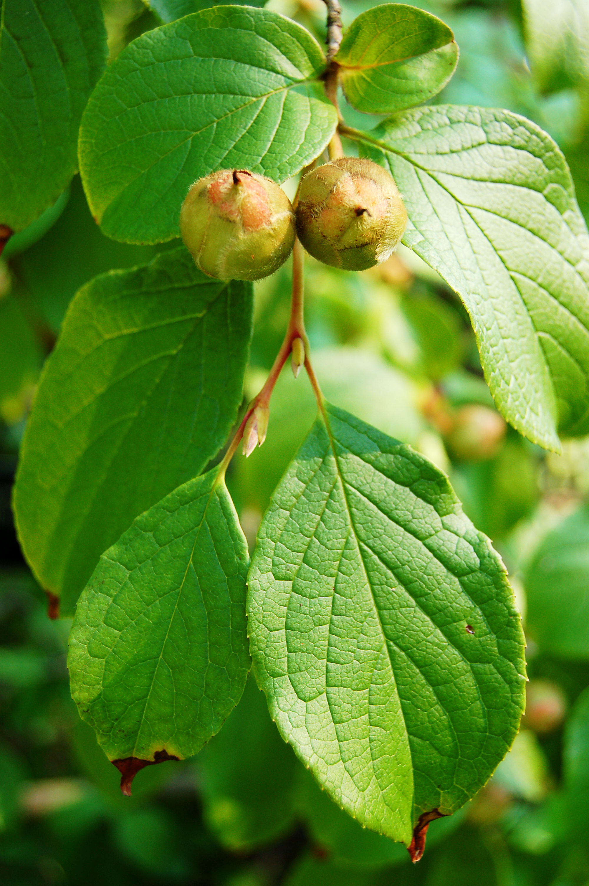 A photograph of a leaf cluster of the Japanese Stewartia (Stuartia pseudocamellia). Photo taken at the Tyler Arboretum where it was identified.